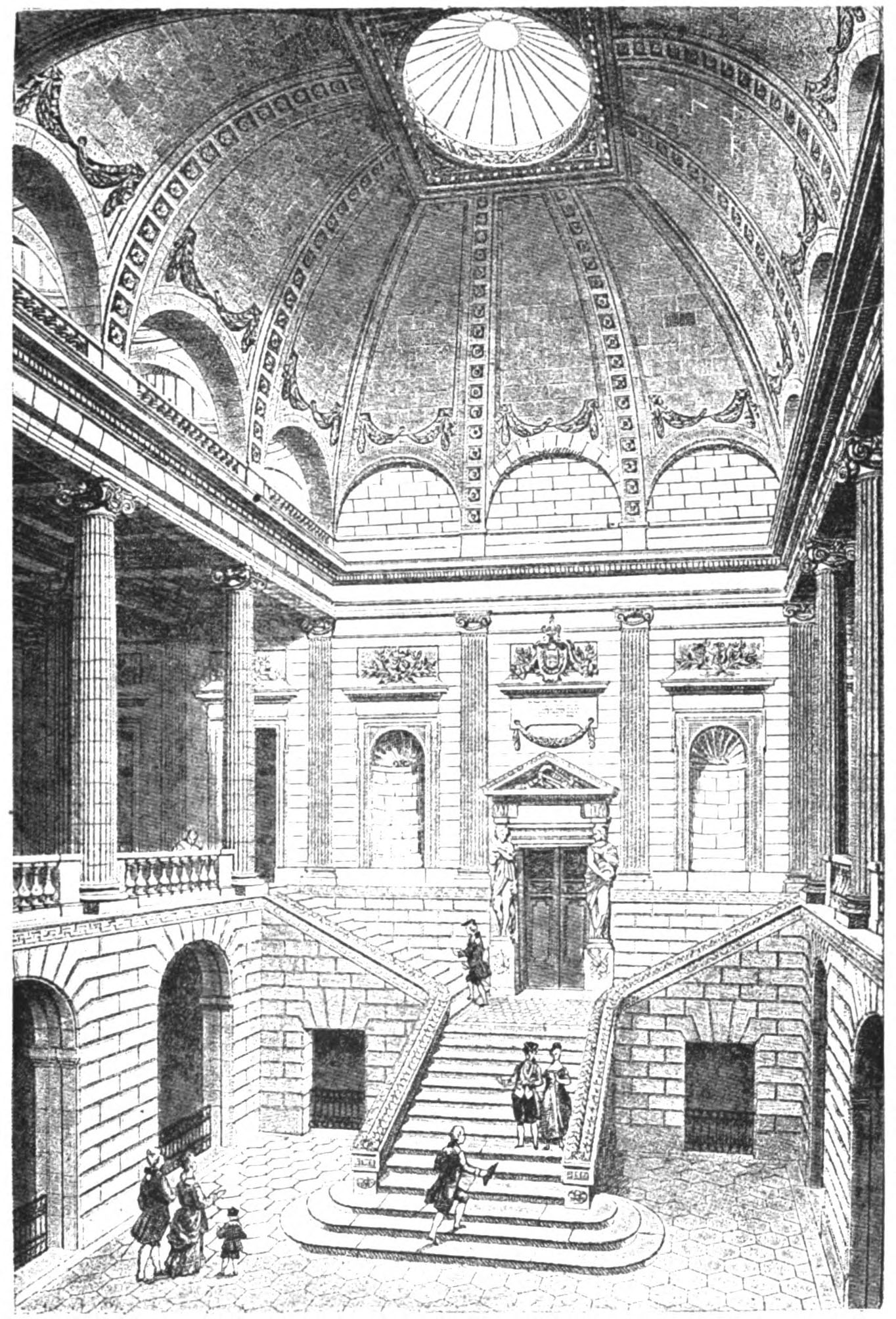 View of the central staircase of the Grand Théâtre de Bordeaux